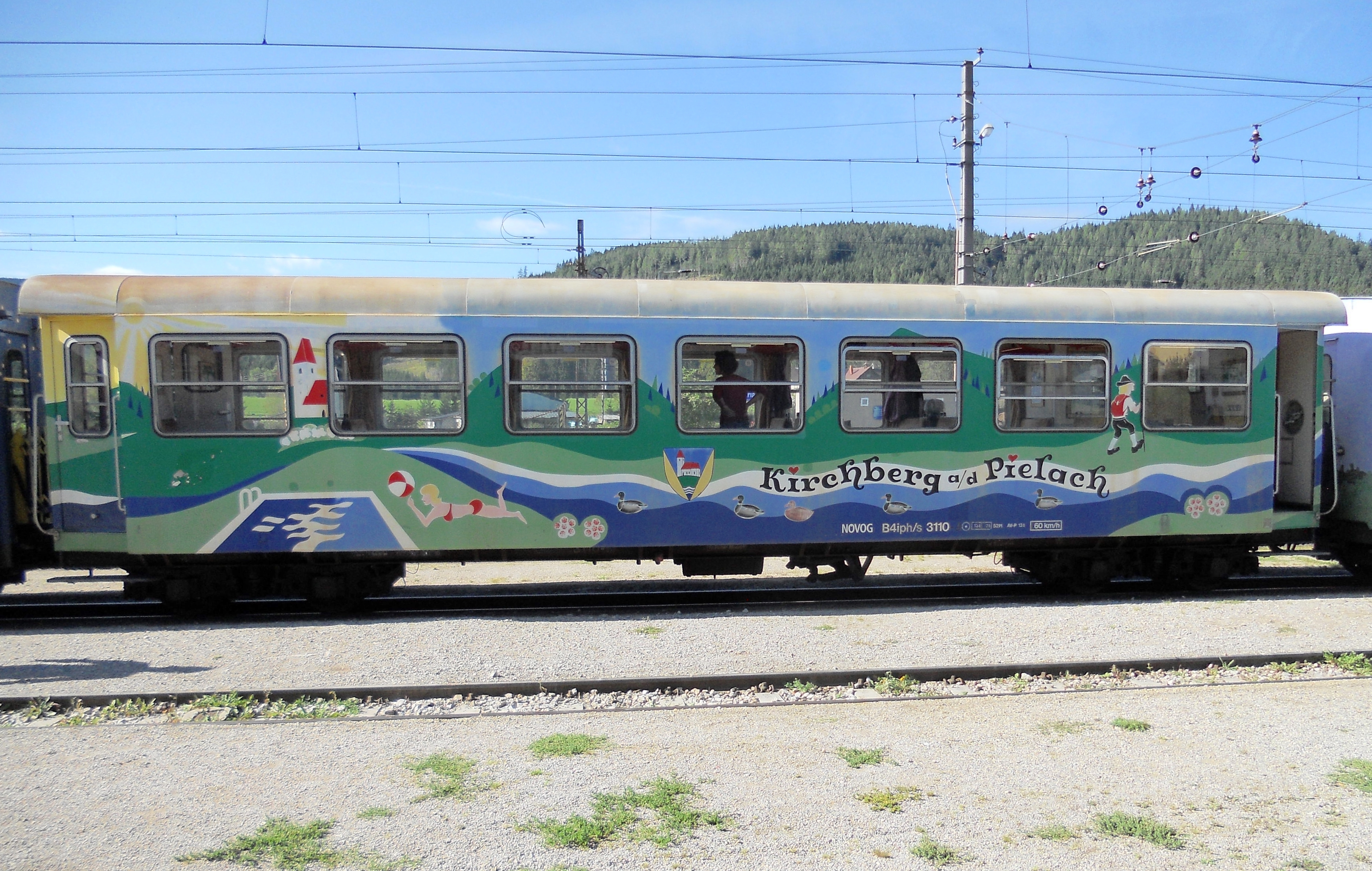 railway waggon "Kirchberg an der Pielach" of the Mariazellerbahn